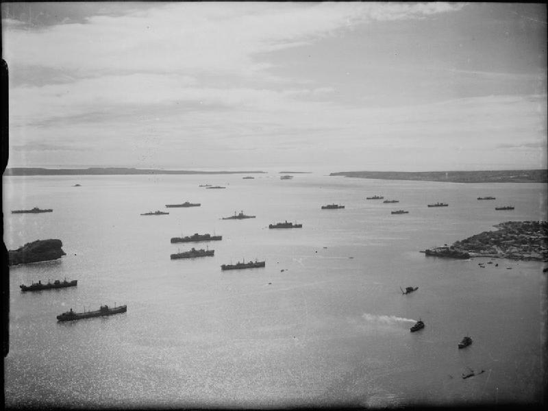 The Royal Navy during the Second World War- Madagascar, May 1942 General views of the warships and British merchant ships in harbour at Diego Suarez, Madagascar after the French had surrendered.